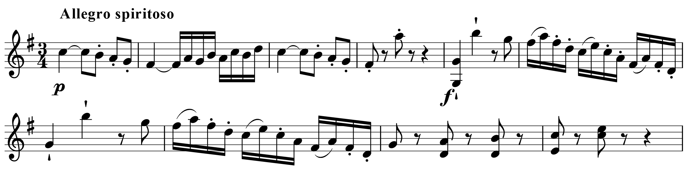 Measures 21-30, Movement 1, Symphony No. 92, Haydn